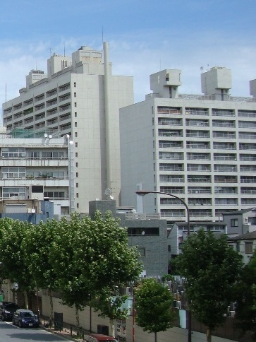 The Hiroo Towers, Minami-Azabu Minato-ku, Tokyo